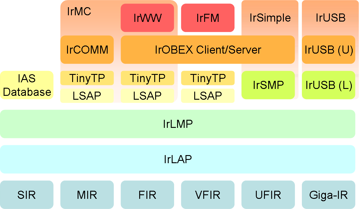 IrDA protocol stack including IrPHY, IrLAP, IrLMP, TinyTP, IrCOMM, IrOBEX, IrUSB...